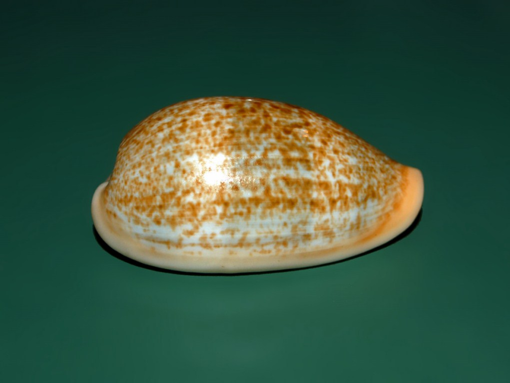 Erronea errones